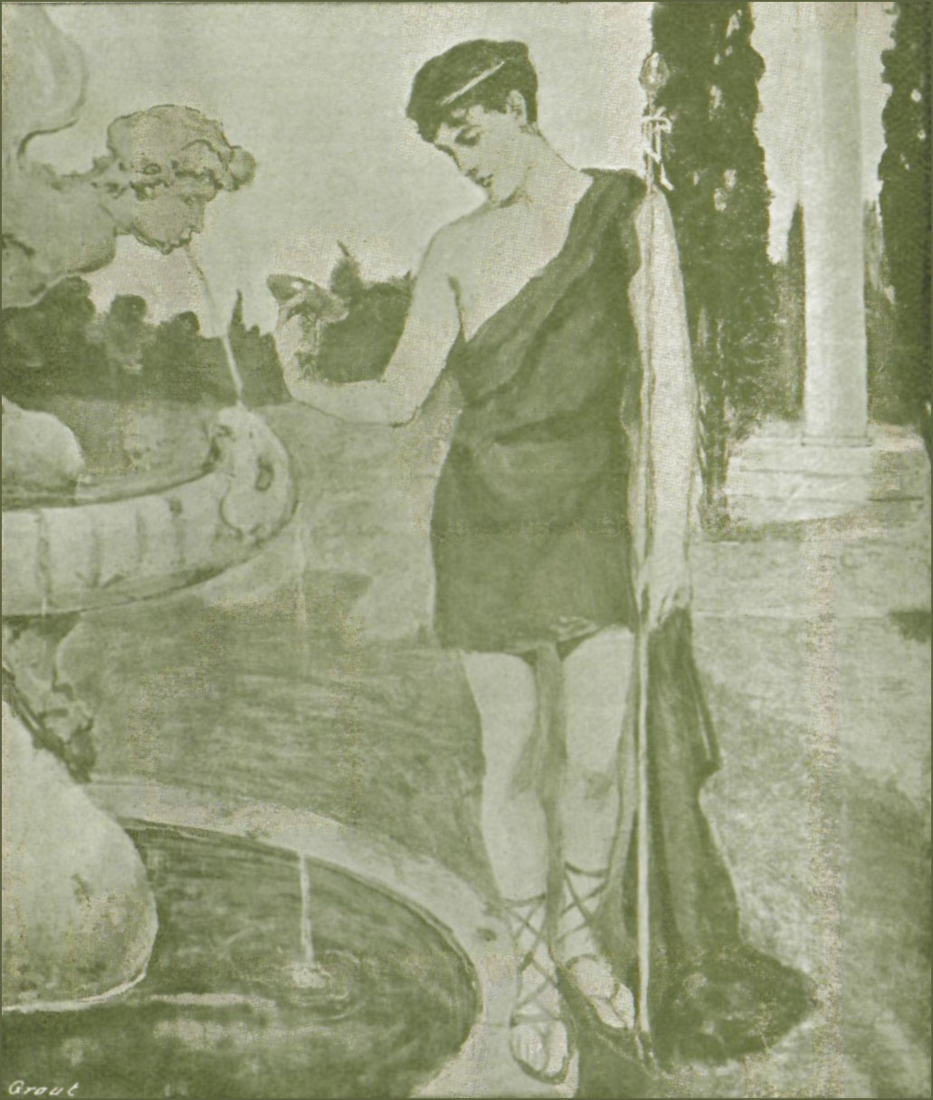 A front plate illustration from Austin And His Friends by Frederic H. Balfour, copied from public domain files on Project Gutenberg.